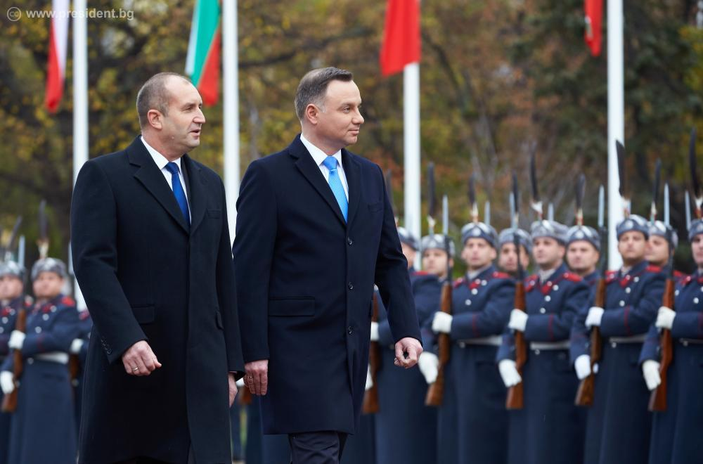 Official Visit of the President of the Republic of Poland Andrzej Duda to the Republic of Bulgaria.